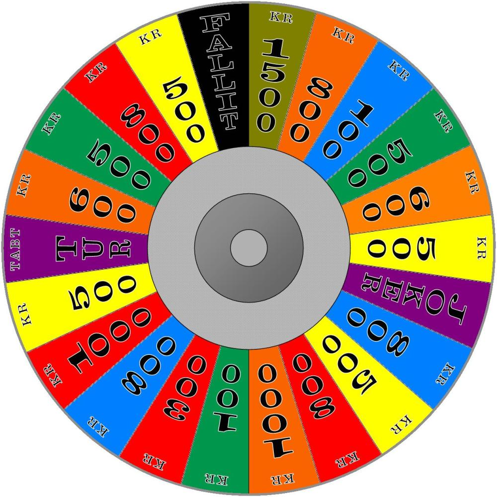 This is the actual round one wheel from when Lykkehjulet premiered in 1988.